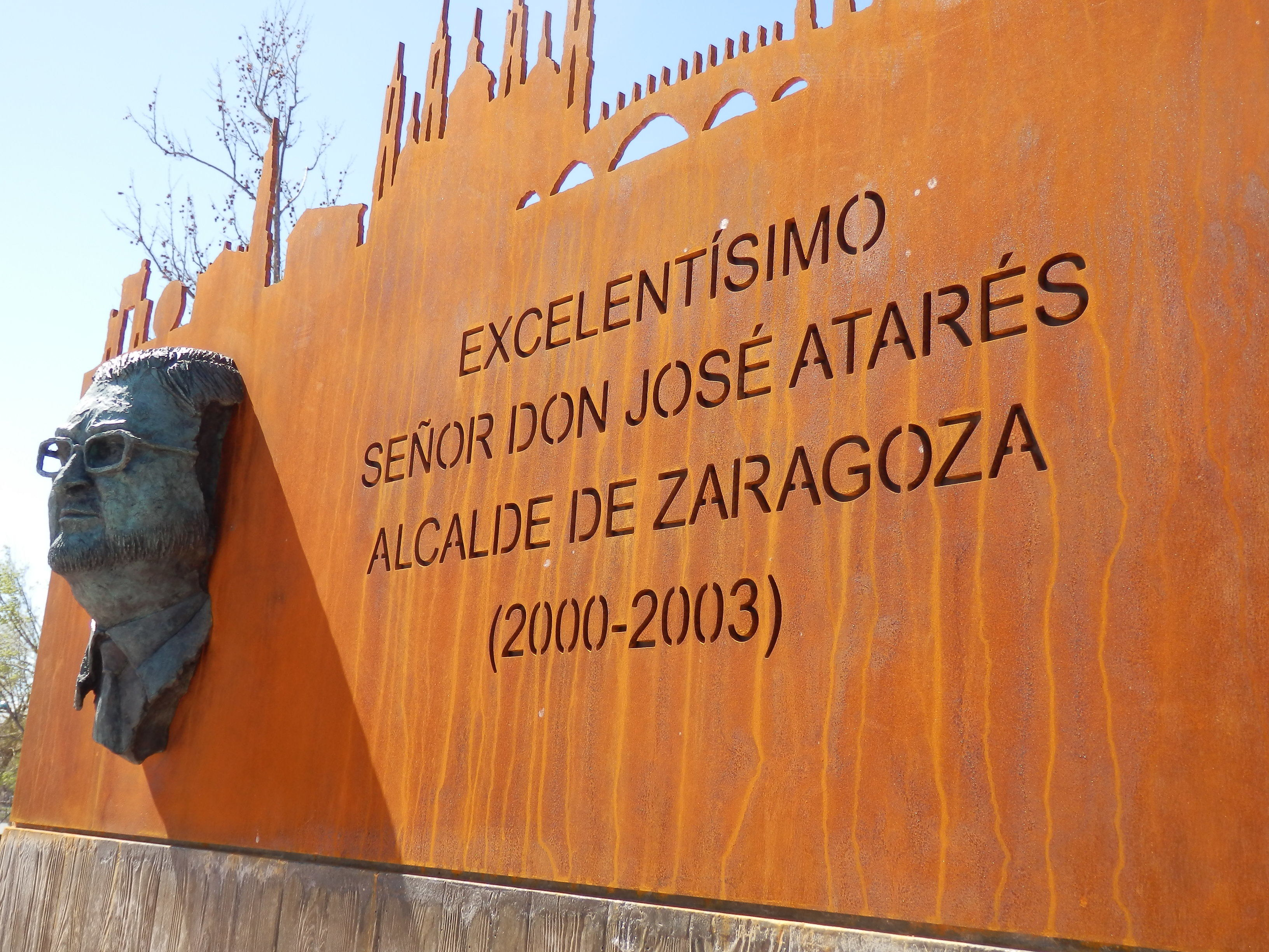 Monument to José Atarés on the avenue of the same name in Zaragosa, Spain.